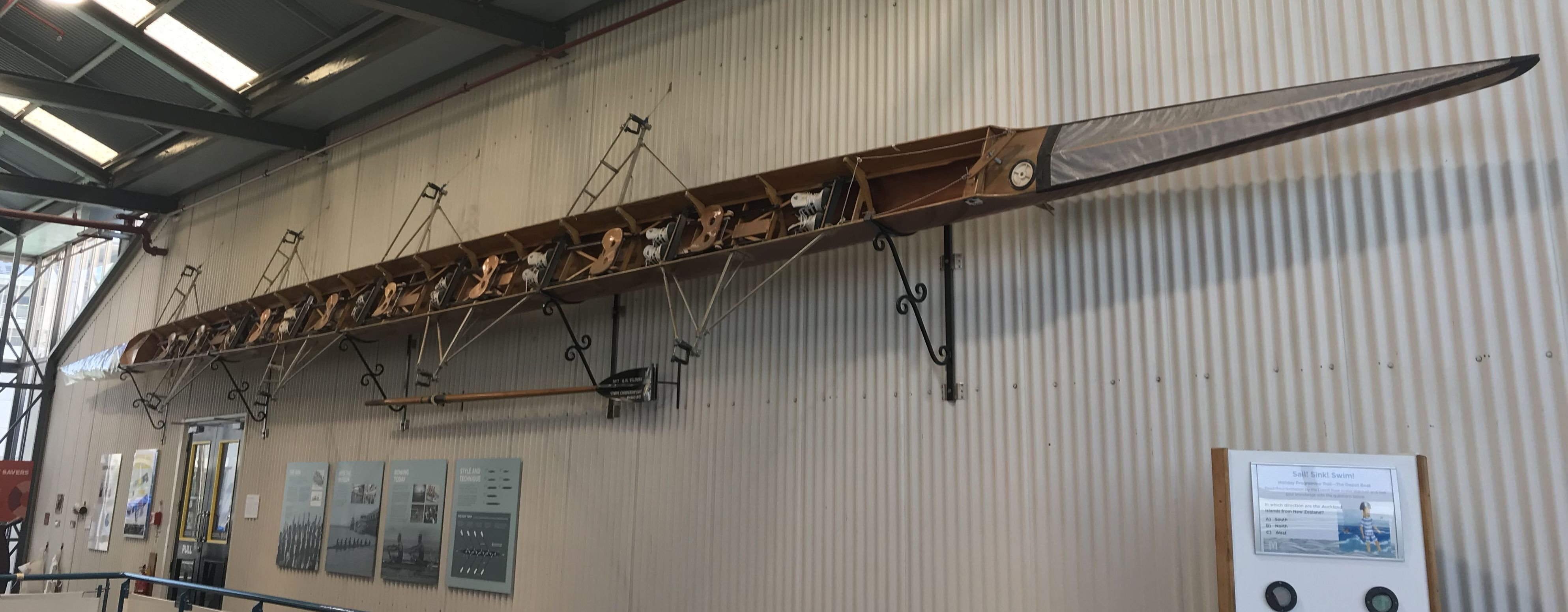 1972 New Zealand eight built by Karlisch on display at the New Zealand Maritime Museum (thank you for staff member Eddie to give me free access to take these photos (crop)